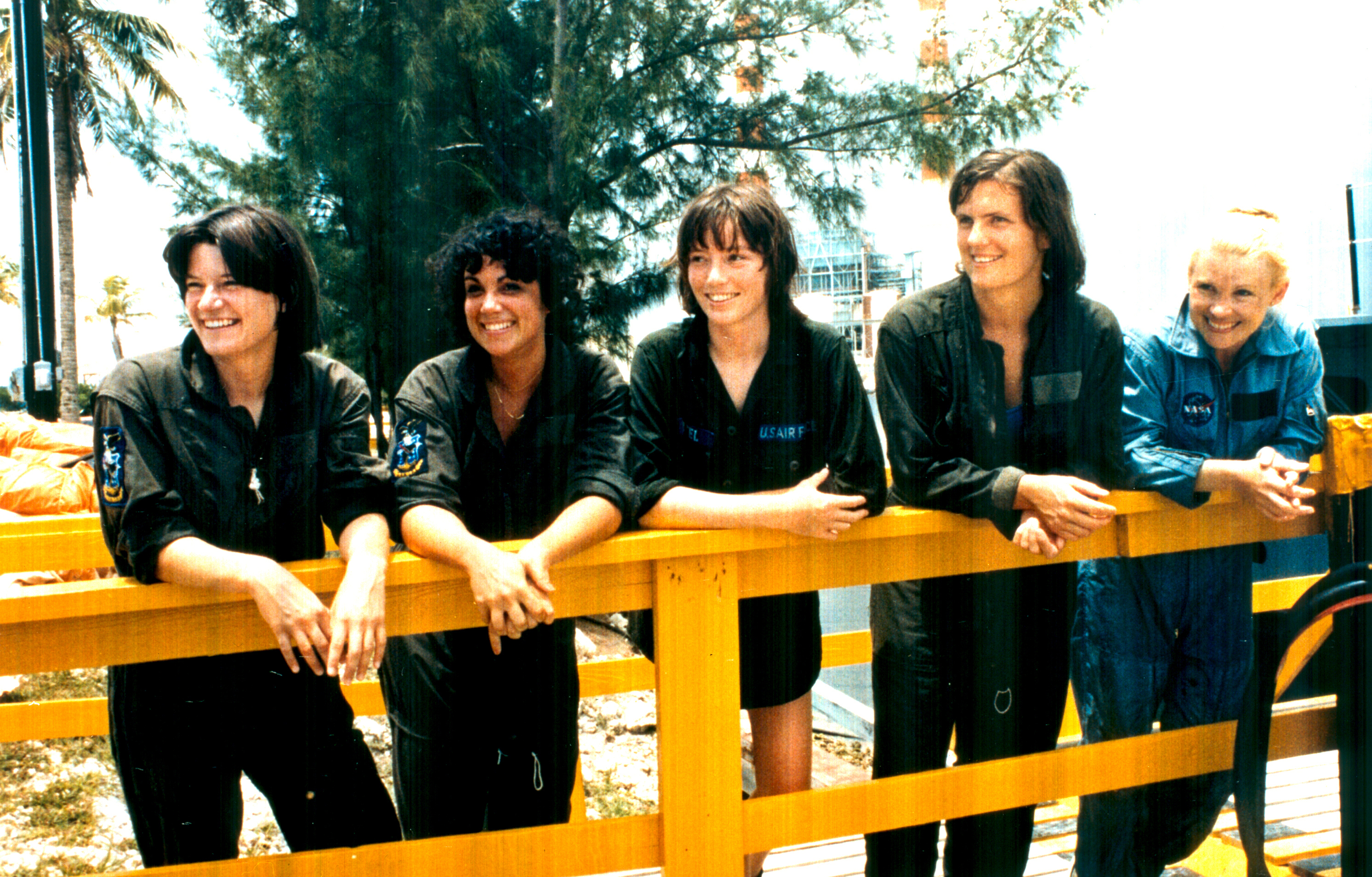 Taking a break from the various training exercises at a three-day water survival school held near Homestead Air Force Base, Florida, are some of the first female astronaut candidates in the U.S. space program. Left to right are Sally K. Ride, Judith A. Resnik, Anna L. Fisher, Kathryn D. Sullivan and Rhea Seddon.